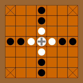 An scheme of the initial piece disposition of the ancient Irish game Brandub. Based on François Haffner's Ard-Ri's image, which is also in the public domain.